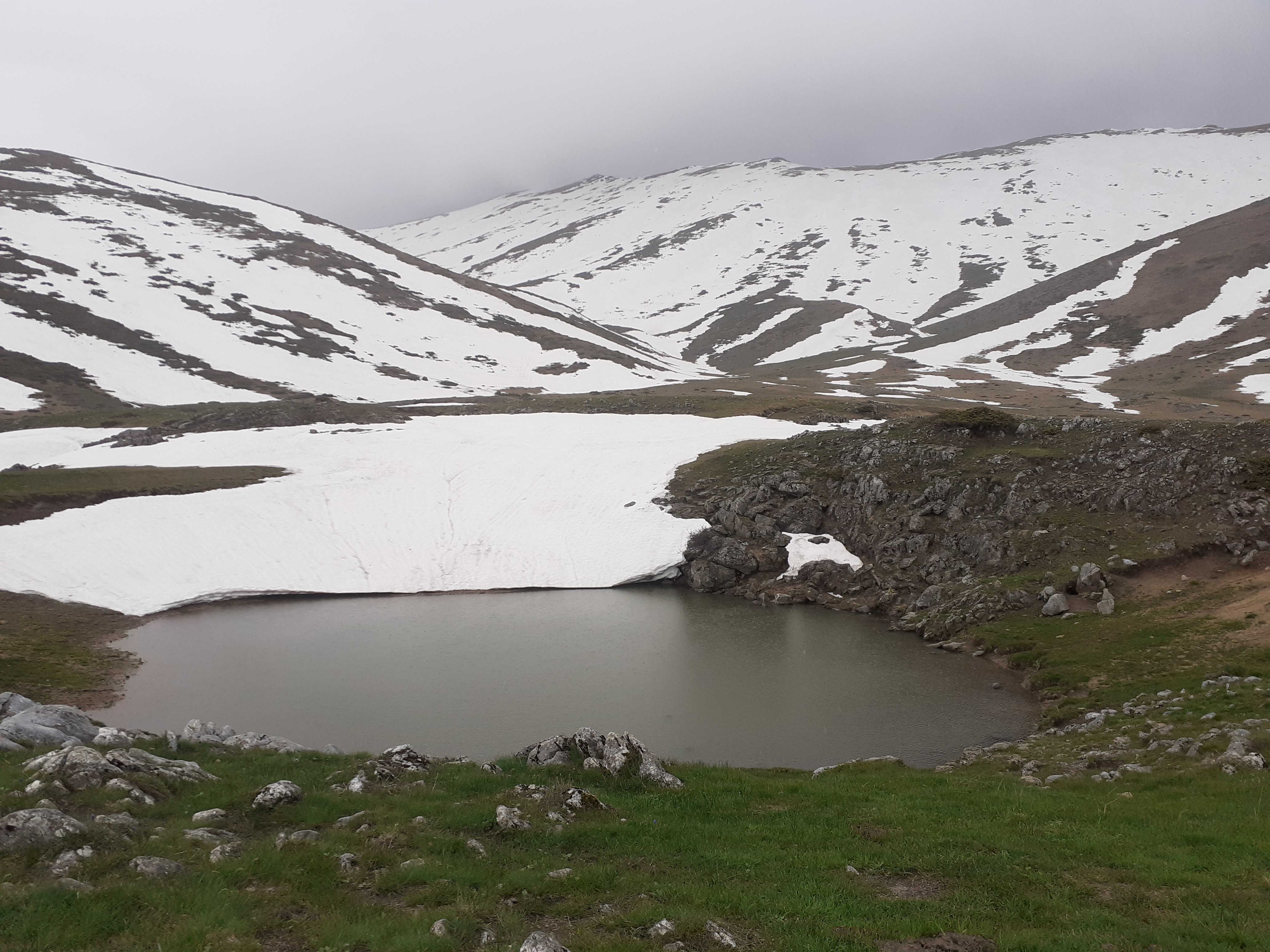 Pond with water of melted snow on Karadzica mountain, Macedonia